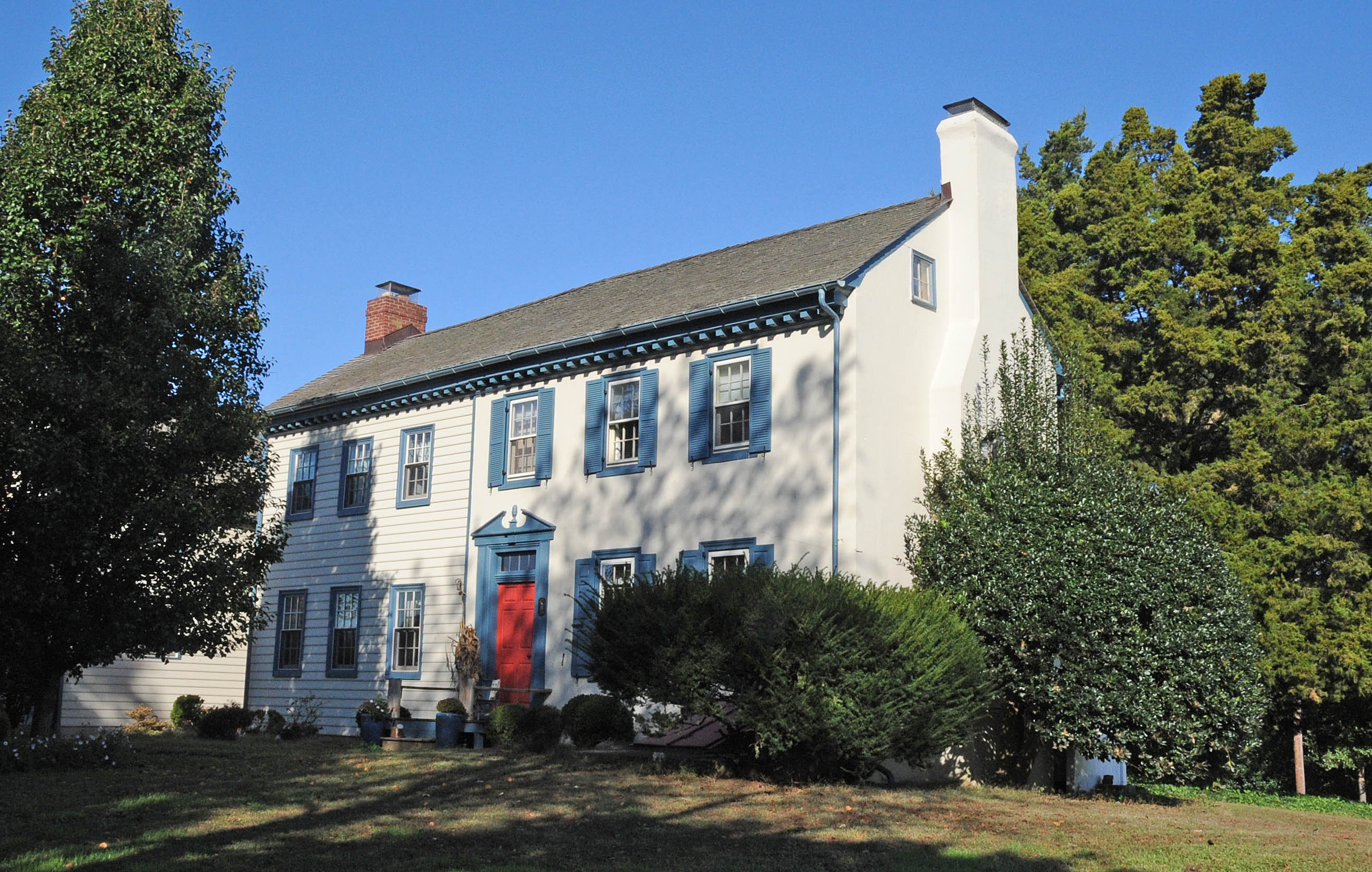 BUILT IN 1796 IN LATE GEORGIAN STYLE. TRUITT WAS AN EARLY 19TH CENTURY GOVERNOR AND HE DIED IN 1818.